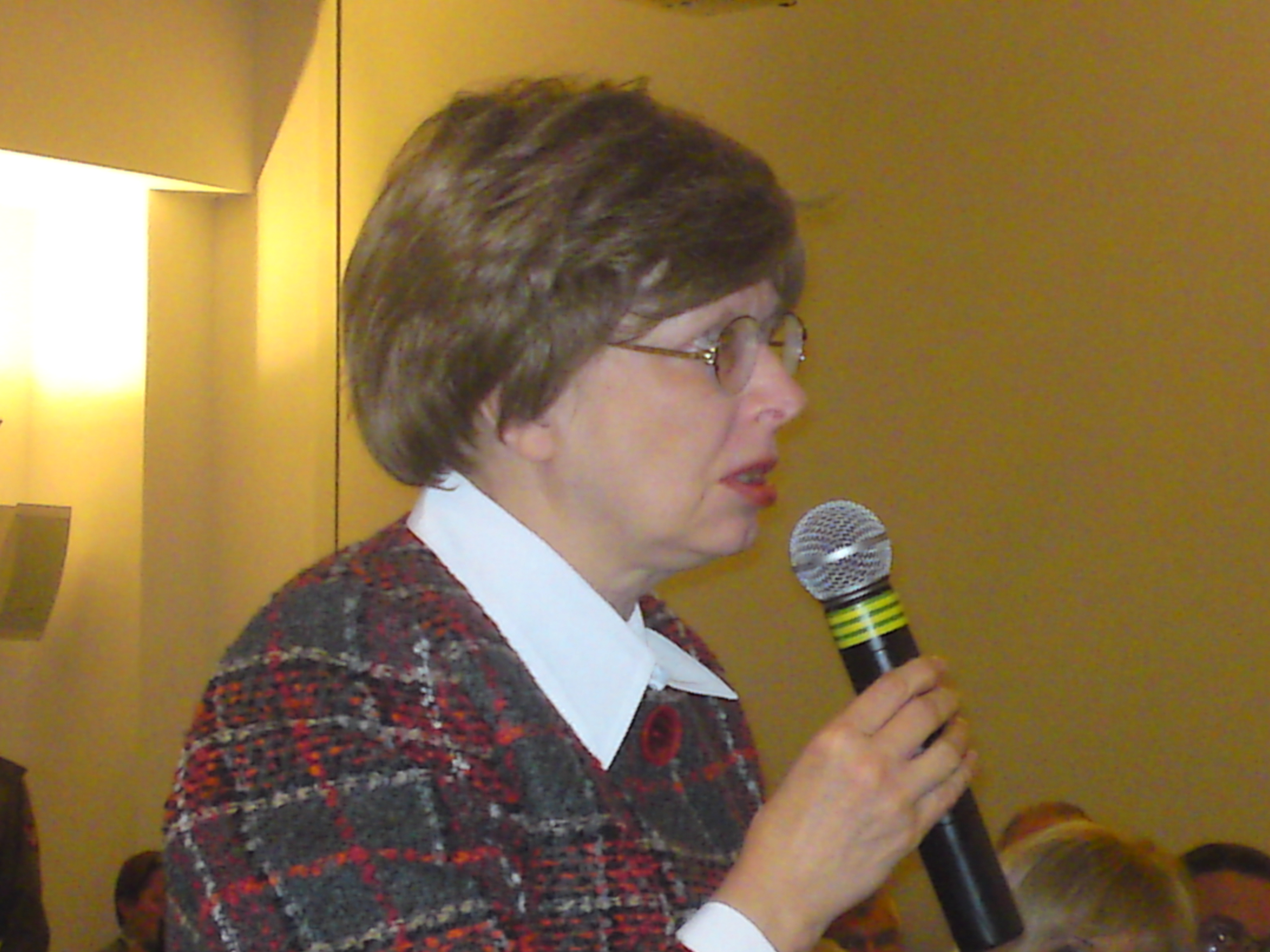 Ewa Siemaszko